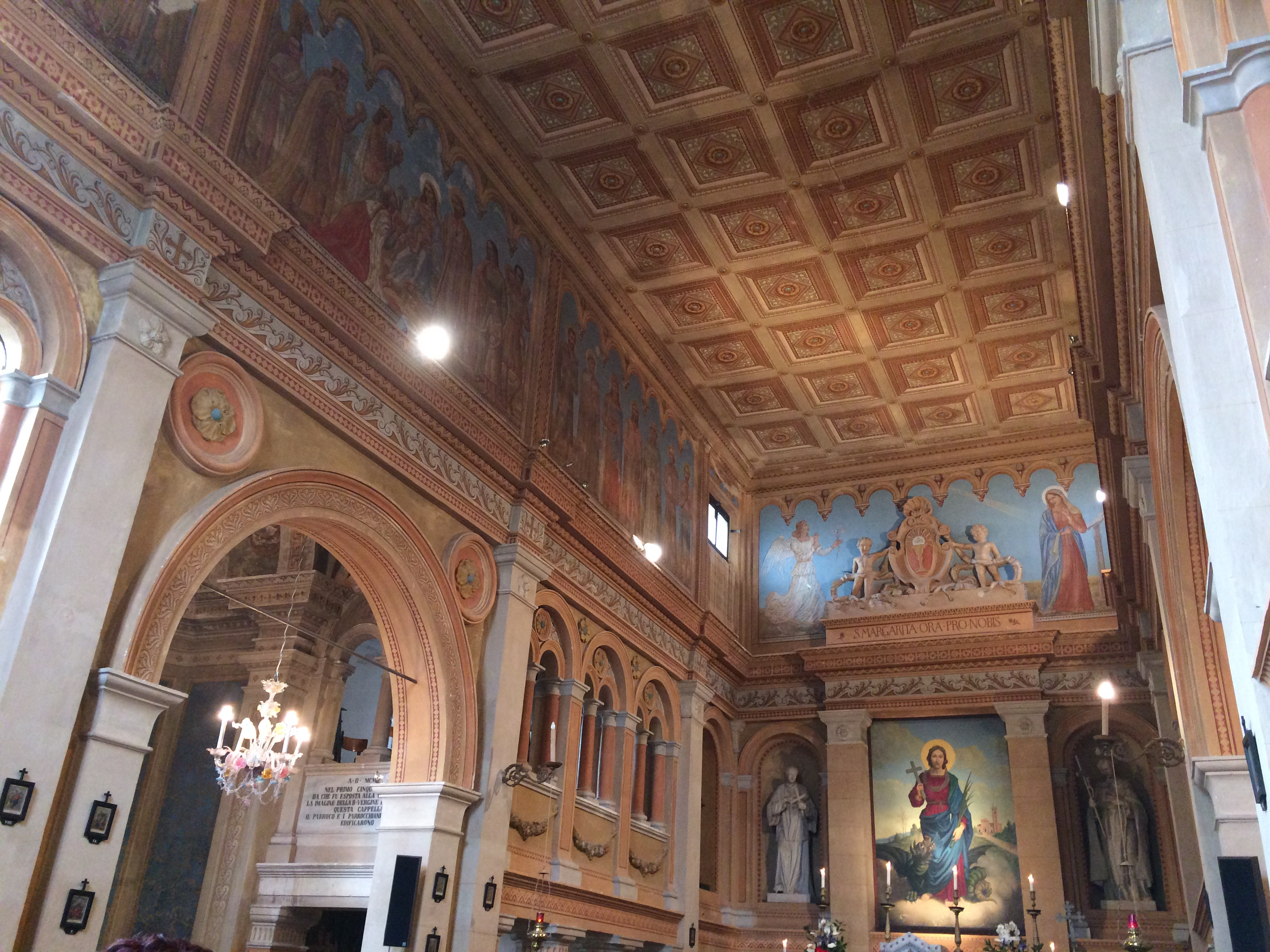 aa